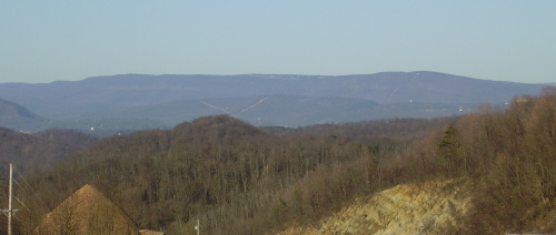 Dans Mountain (2,895 ft.) photo by: Joe Calzarette